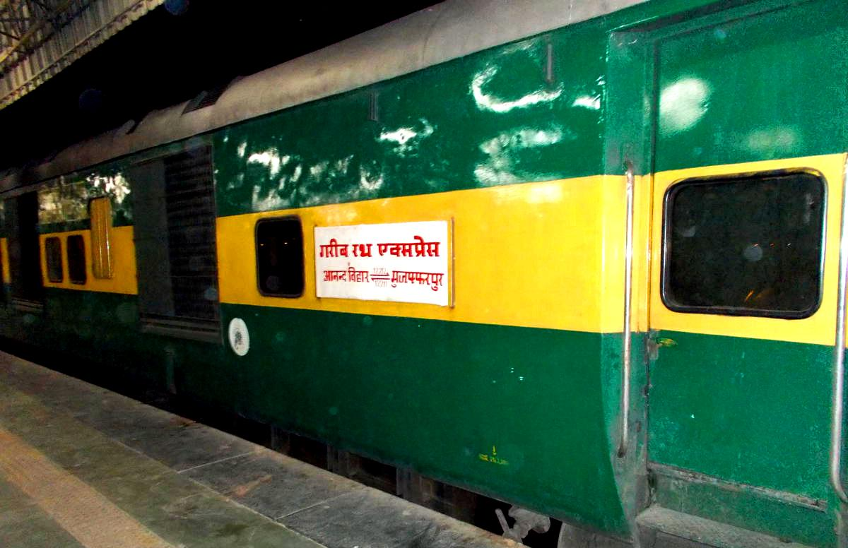 Muzaffarpur Anand Vihar Terminal Garib Rath Express at Muzaffarpur Junction